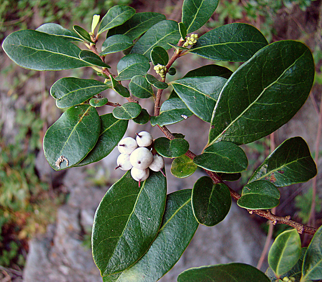 The fruit of an Azara, Lago Villarica, Chile. In context at